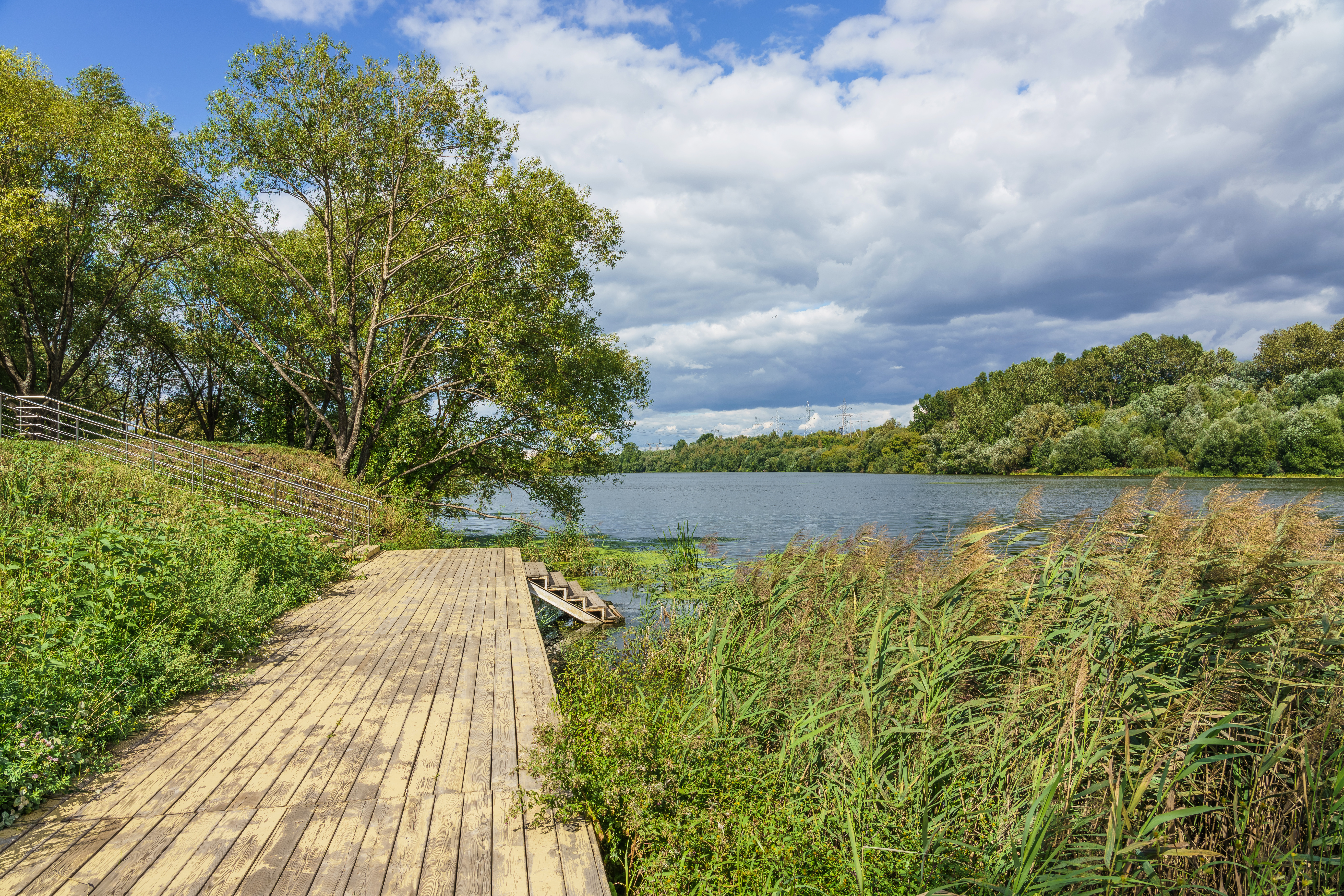 Brateyevo Floodplain Park in Moscow, Russia